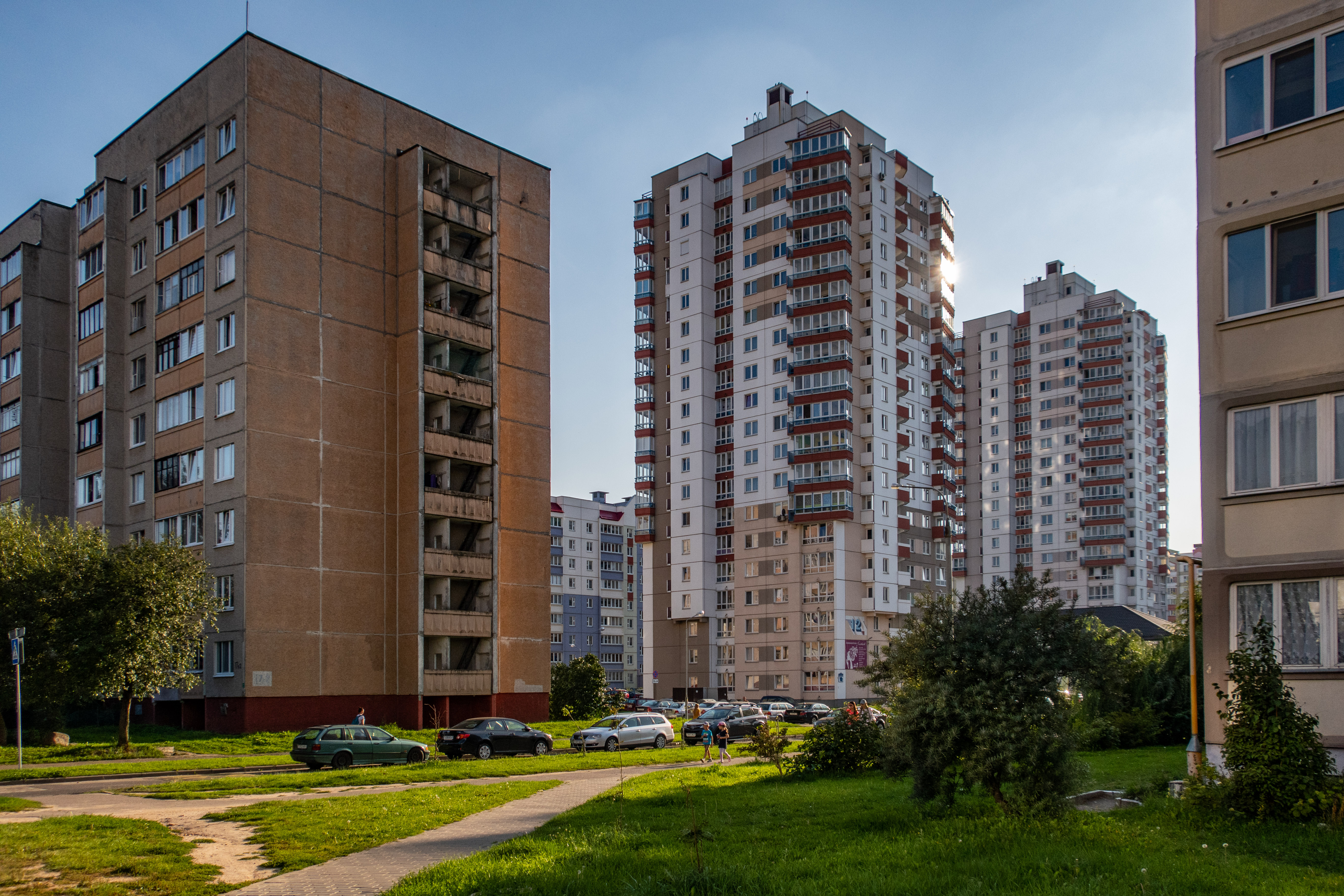 Kozyrava (Kozyrevo), former suburb of Minsk (Belarus). Baltyjskaja street